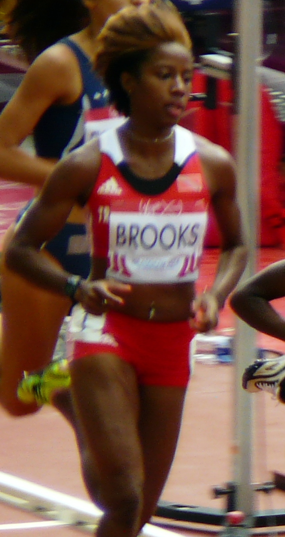 Hampden Park Glasgow Commonwealth Games Day 7 Athletics Morning Session Wednesday 30th July 2014. Women's 800m Round 1, Heat 2, Jessica Smith (Can), Winnie Nanyondo (Uga), Janeth Jepkosgei Busienei (Ken), Katherine Katsanevakis (Aus), Natalia Evangelidou (Cyp), Aleena Brooks (Tto), Kimara Mcdonald (Jam), Martha Bissah (Gha)